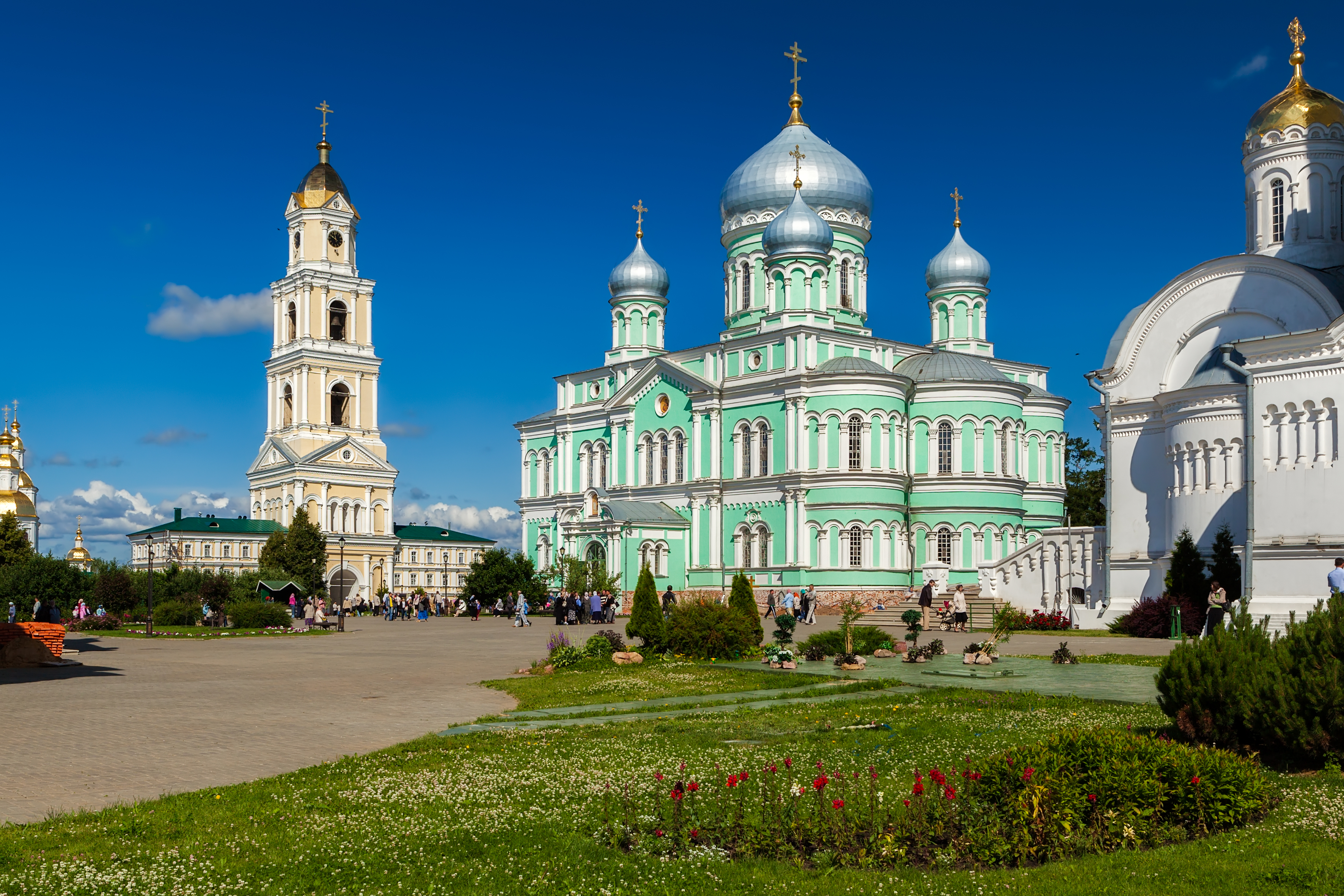 Bell Tower and Holy Trinity Church of Troitsky Serafimo-Diveyevsky Convent